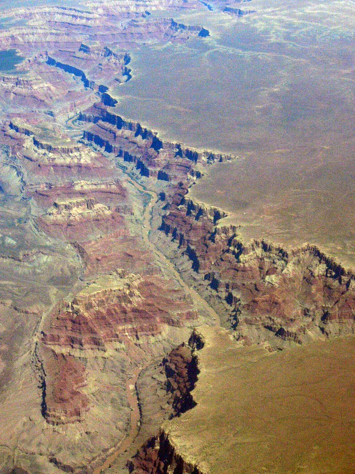 Aerial view of the Grand Canyon, looking north, at the point where the Little Colorado River enters the Colorado. (The Little Colorado enters from the east, and the Colorado flows south.)